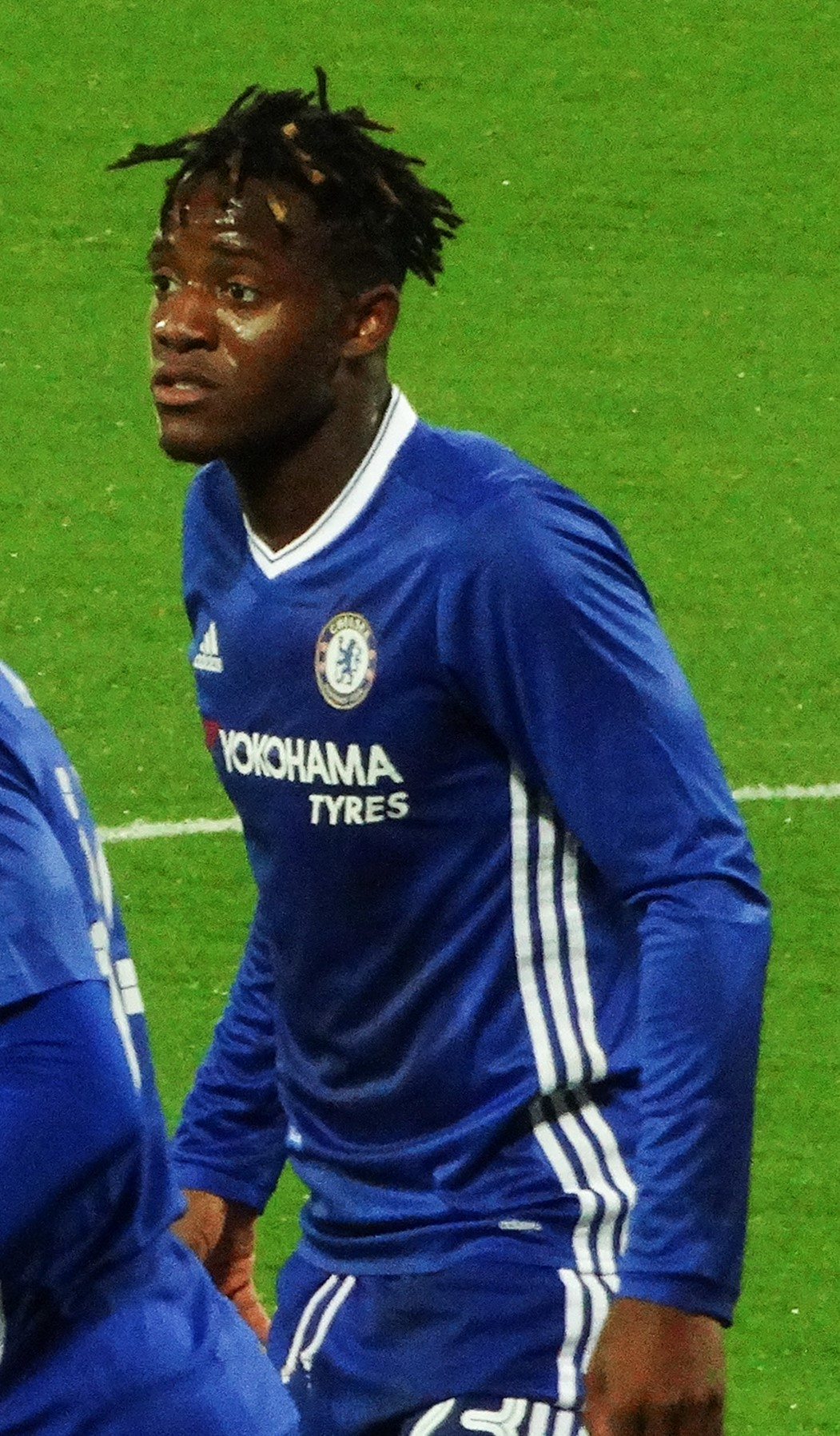 Michy Batshuayi